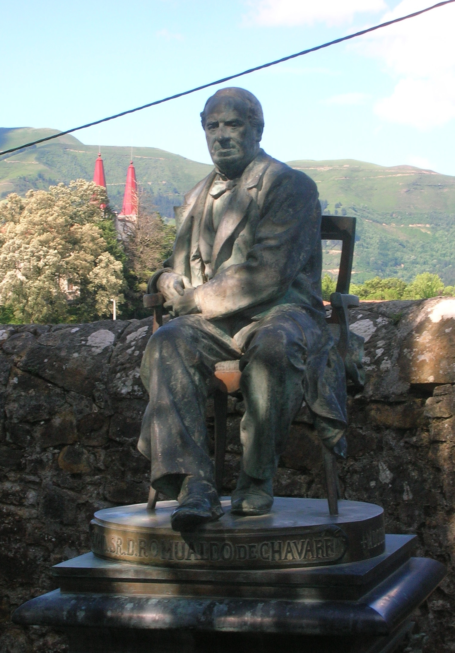 Monument to Romualdo de Chávarri, made by sculptor Josep Montserrat i Portella, as it could be seen in 2007 by the old church of Biáñez in Carranza-Karrantza, Biscay. The statue was stolen in May 2012.